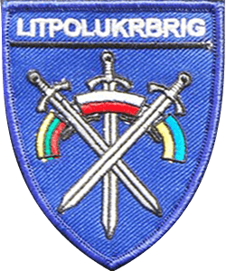 Shoulder patch of LITPOLUKRBRIG